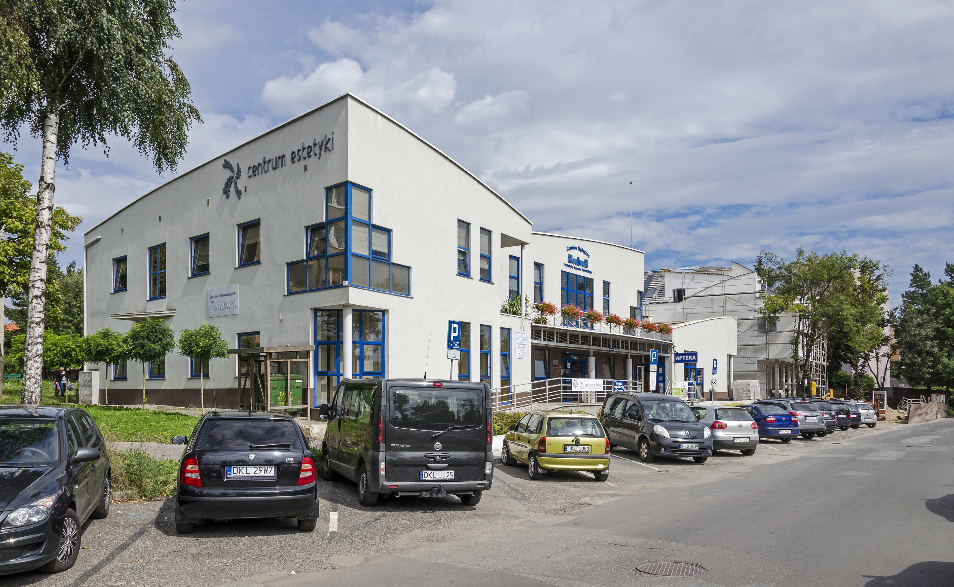 Kusocińskiego Street in Kłodzko, "Salus" clinic